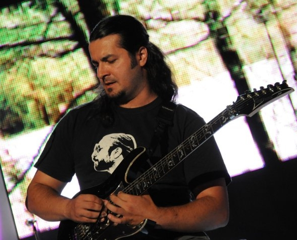 Cristi Gram during Phoenix Classics concert (2010).